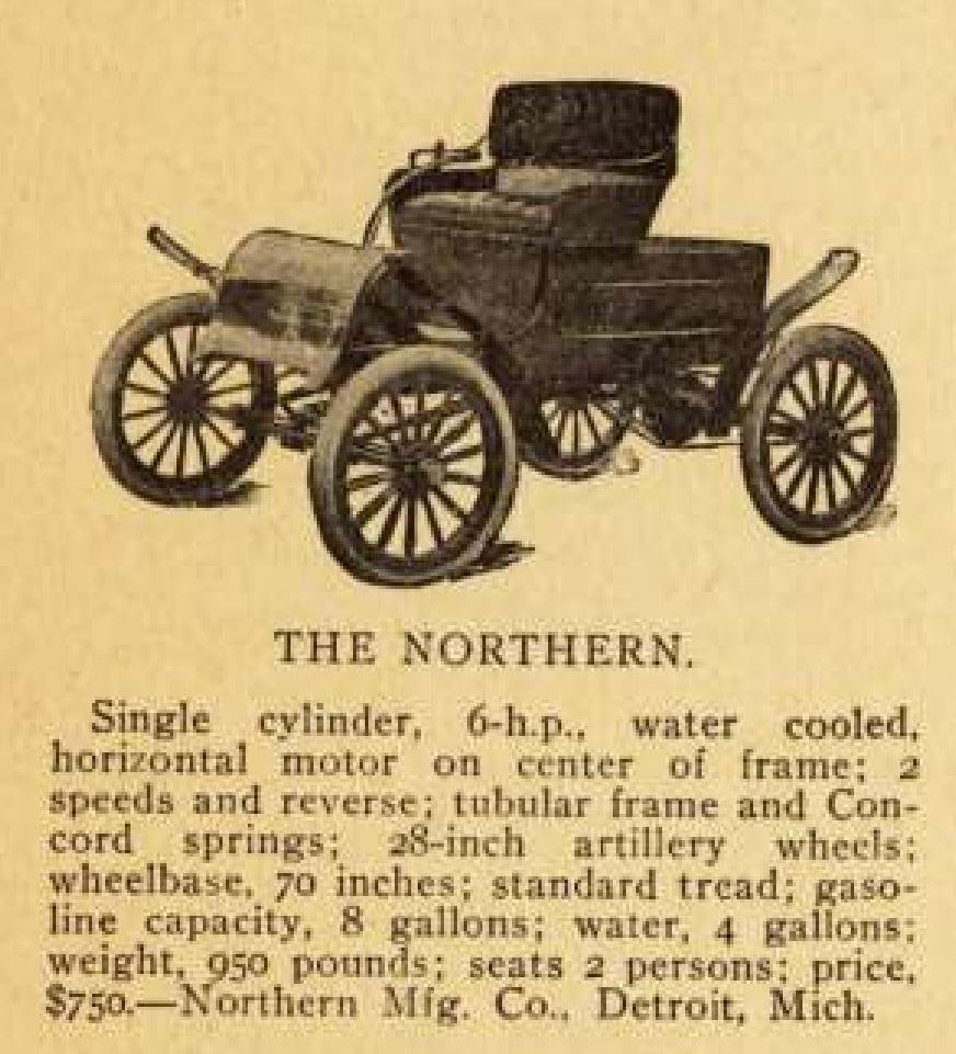 Northern 6 HP runabout (motor buggy) in Frank Leslie's Popular Monthly, January, 1904.